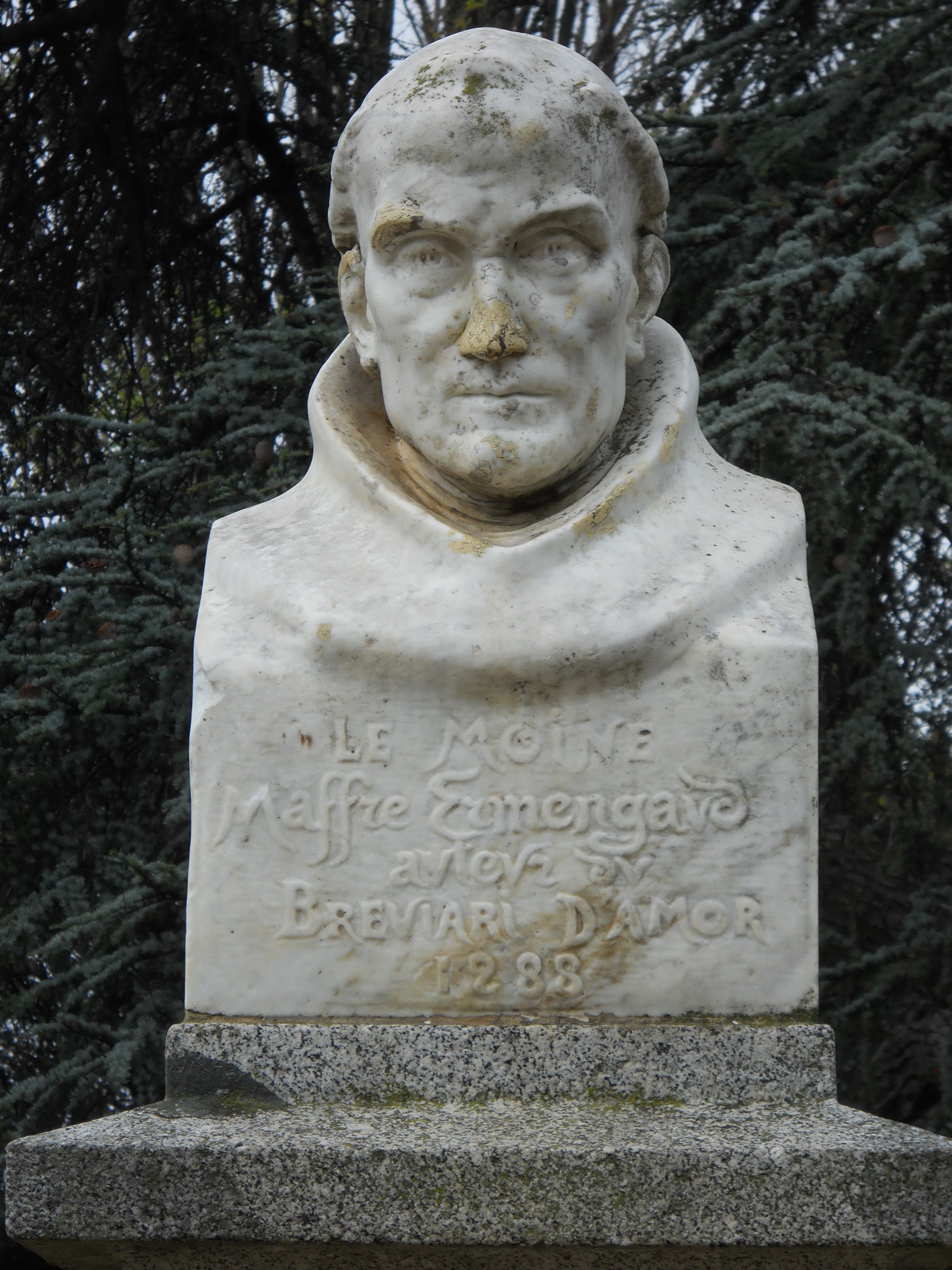 Bust of Maffre Ermengaud (sic) in the Plateau des Poètes Park, Béziers, France - work of Jean-Antoine Injalbert